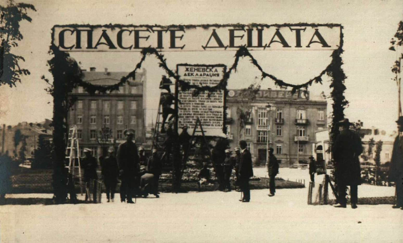 Children's Day in Sofia, Bulgaria, 1928